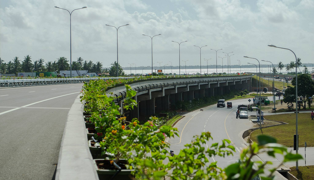 CKE- EO3